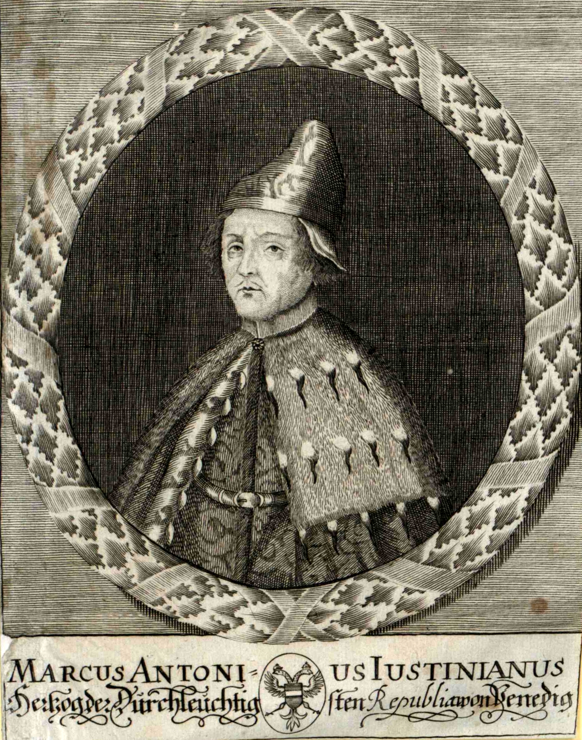 Marcantonio Giustinian (1619-1688)